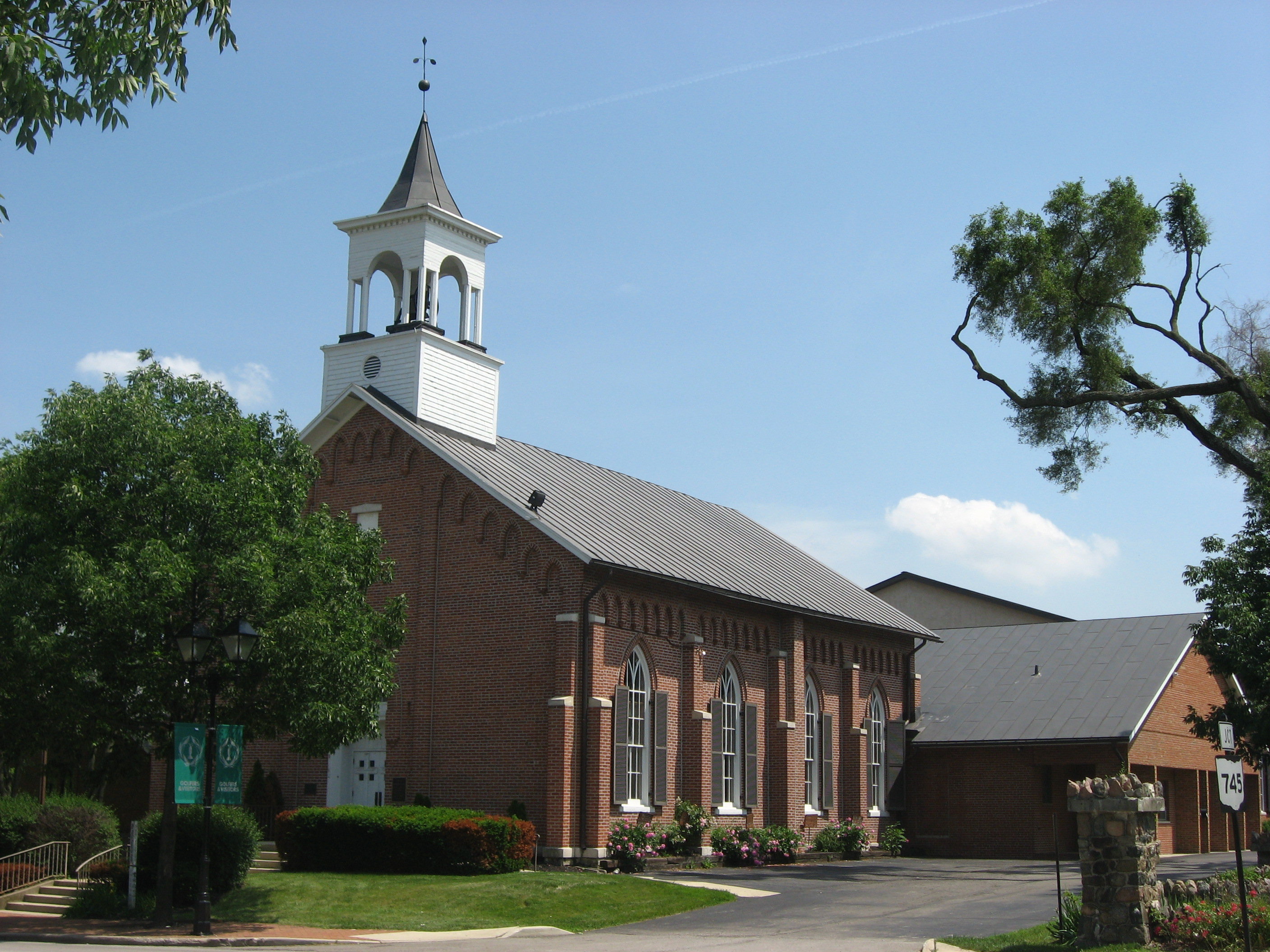 Front of the Dublin Christian Church, located at 81 W. Bridge Street (U.S. Route 33/State Route 161) in Dublin, Ohio, United States. Built in 1845, it is listed on the National Register of Historic Places.